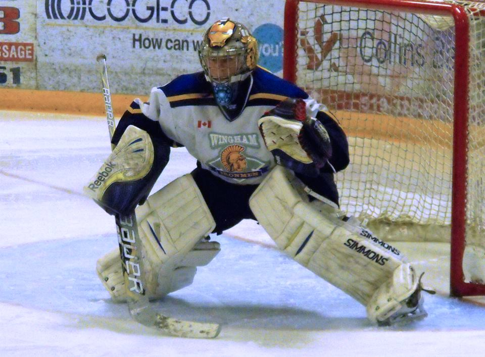 These images of OHA Jr. C action during the 2013-14 season are taken by Devan Mighton.